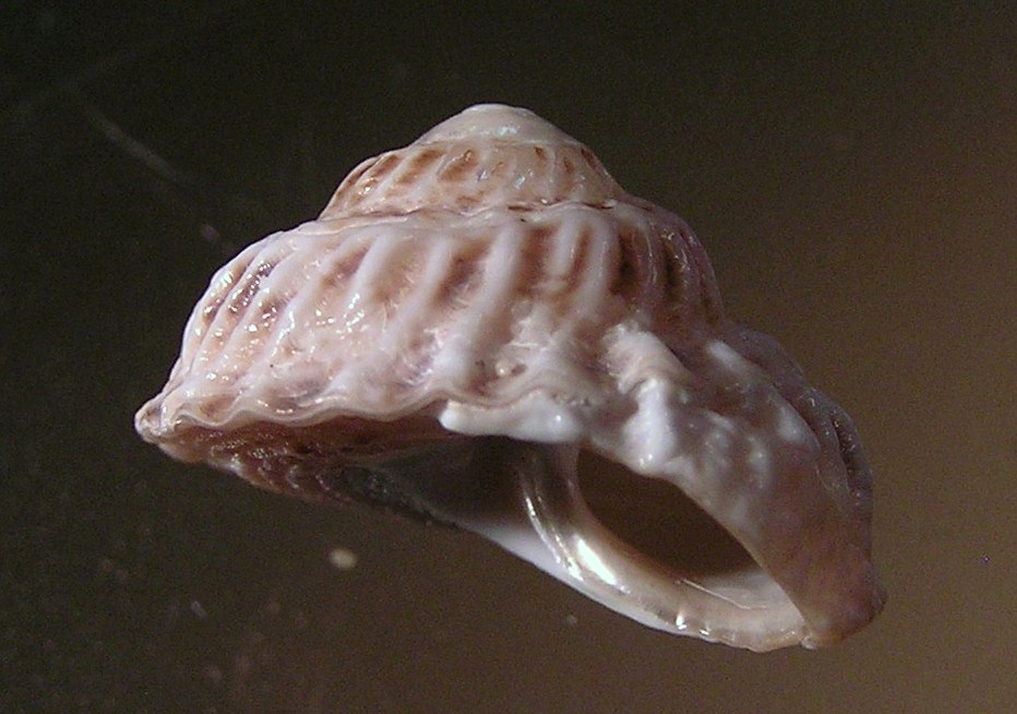 Bellastraea squamifera (Koch, 1844) , a turban snail from the family Turbinidae; Tasmania